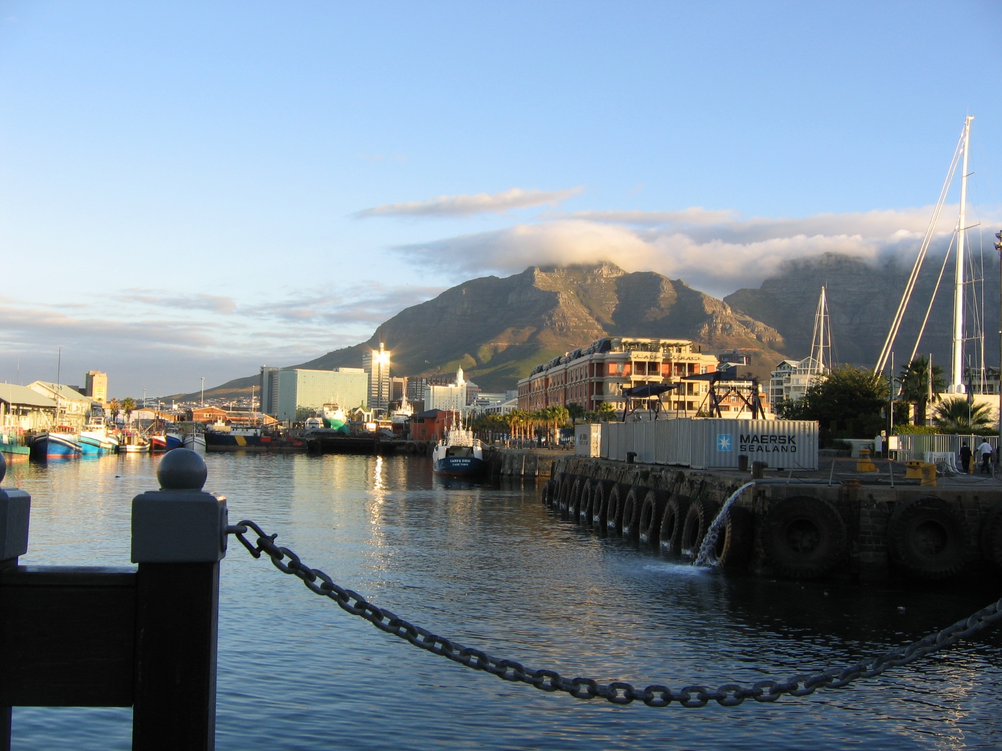 View from the V&A Waterfront towards Table Mountain, in Cape Town, South Africa.